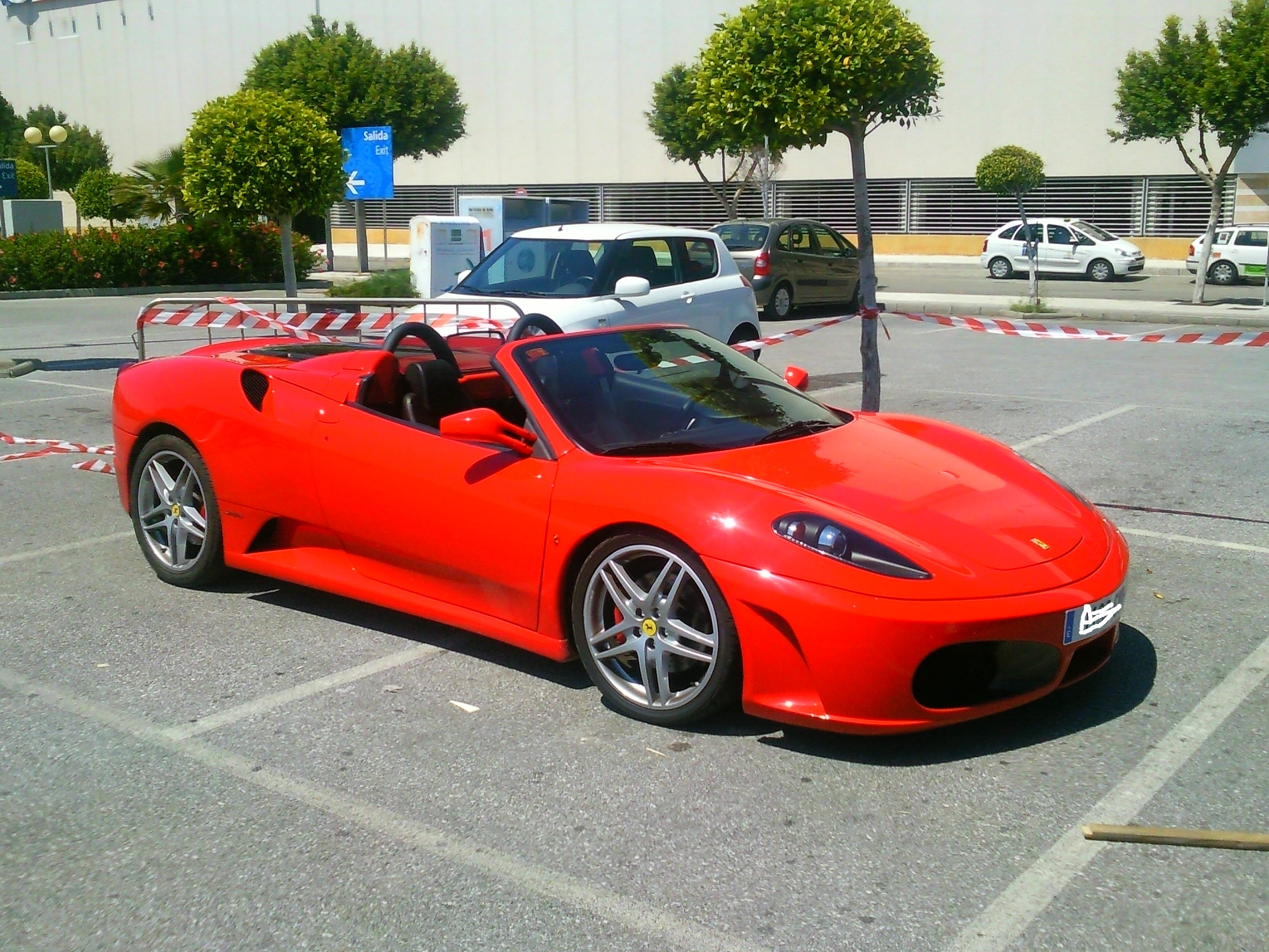 Ferrari F430 Spider 01